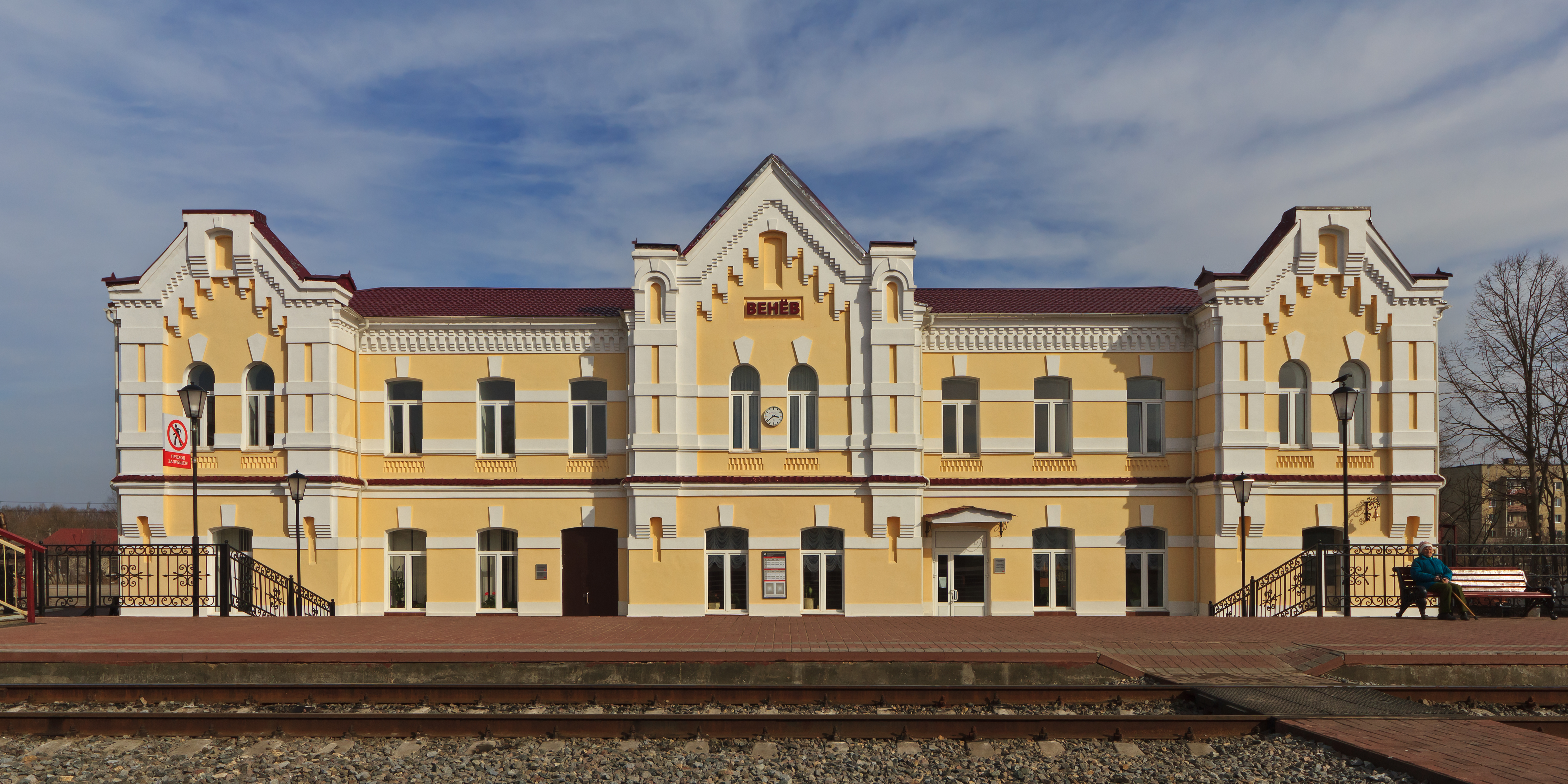 The building of the railway station of Venyov, Tula Oblast, Russia.